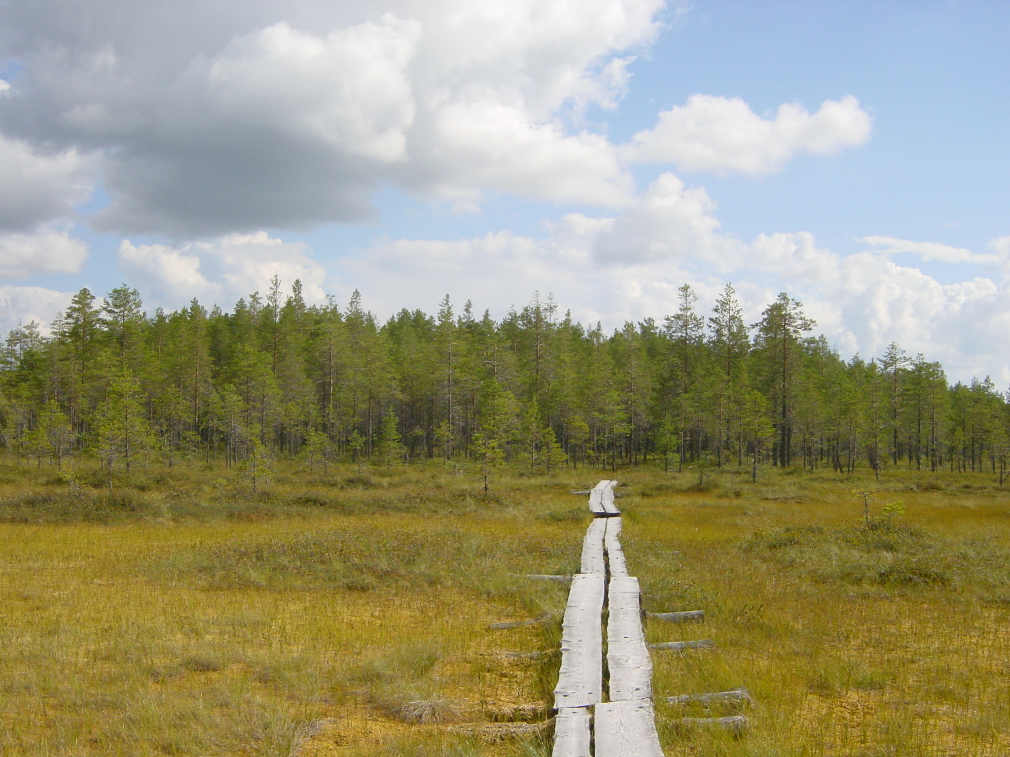 Duckboards in the Patvinsuo national park, Finland